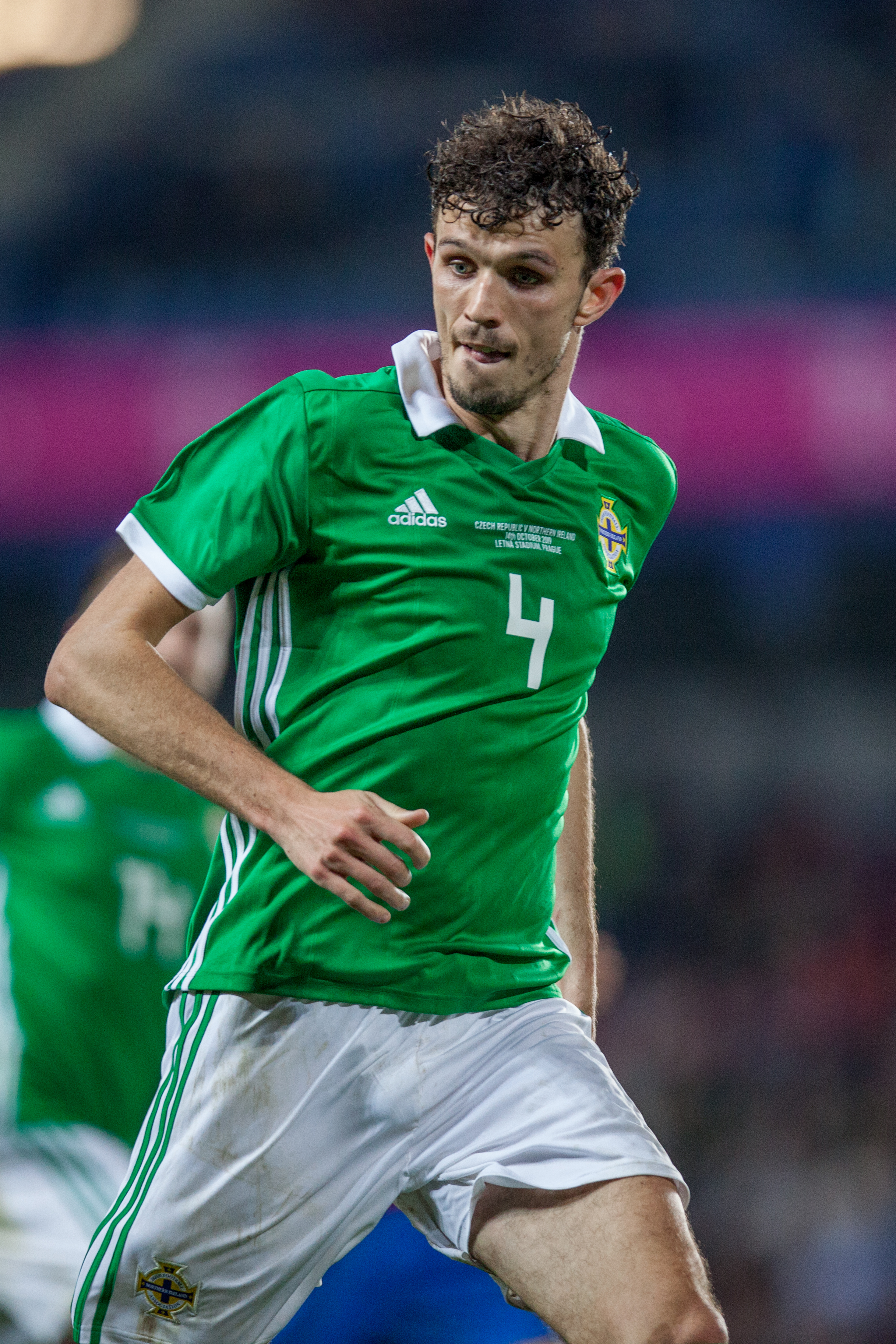 Tom Flanagan in an international friendly match between Czech Republic and Northern Ireland (2:3), Stadion Letná (Prague) 2019-10-14 The making of this work was supported by Wikimedia Austria. For other files made with the support of Wikimedia Austria, please see the category Supported by Wikimedia Österreich. Personality rights warningAlthough this work is freely licensed or in the public domain, the person(s) shown may have rights that legally restrict certain re-uses unless those depicted consent to such uses. In these cases, a model release or other evidence of consent could protect you from infringement claims.